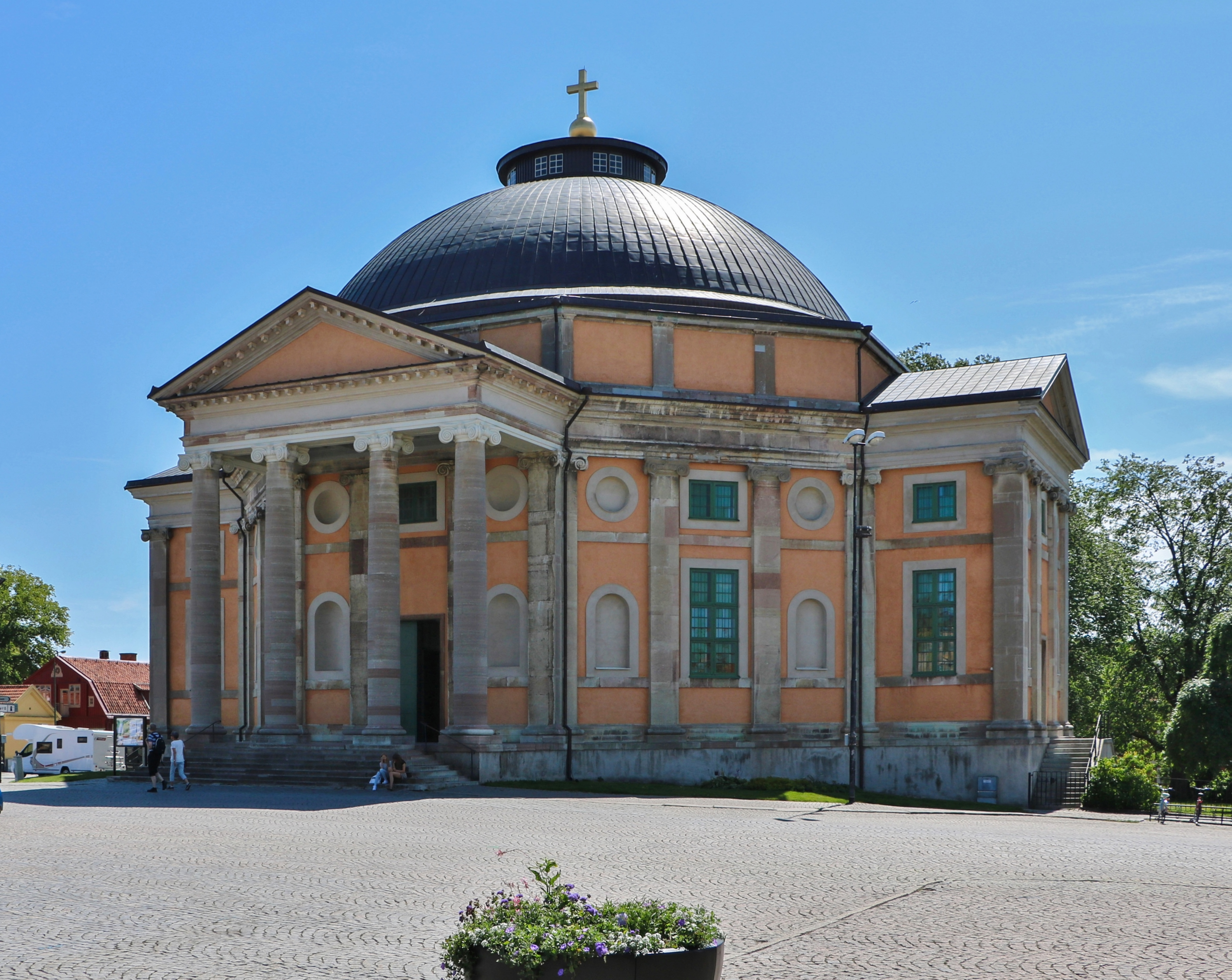 Holy Trinity Church, Karlskrona.Exterior